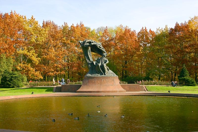 Chopin Monument in Warsaw with the permission of the authors Marek and Ewa Wojciechowscy [1]